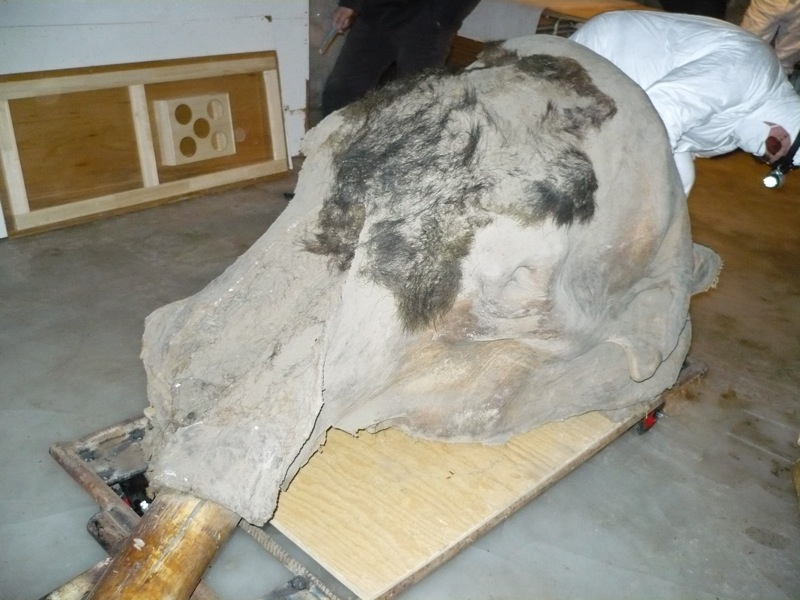 Left side of the "Yukagir mammoth"'s head, missing the trunk and with one tusk removed.